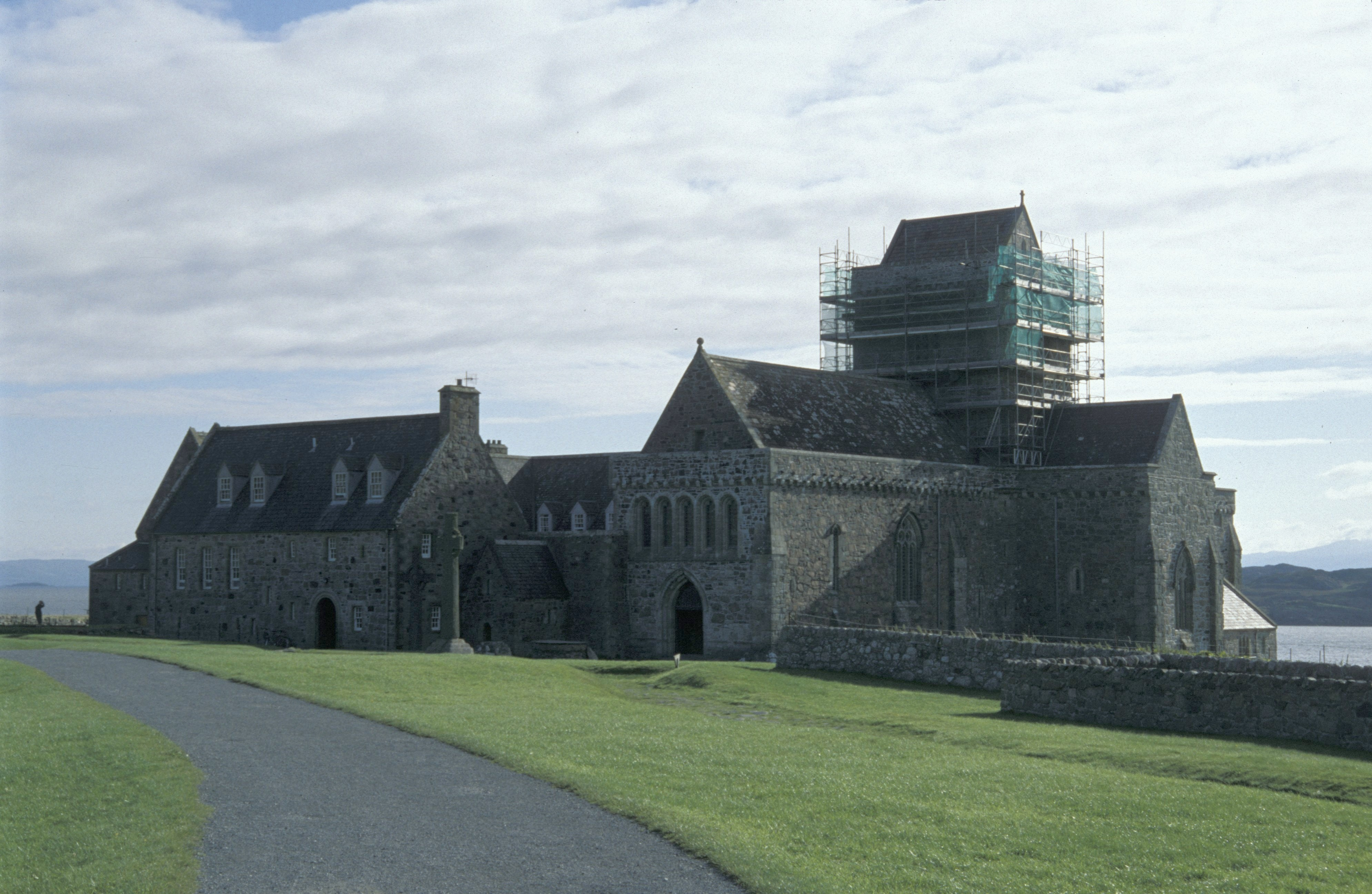 Iona Abbey, Iona (island), Scotland